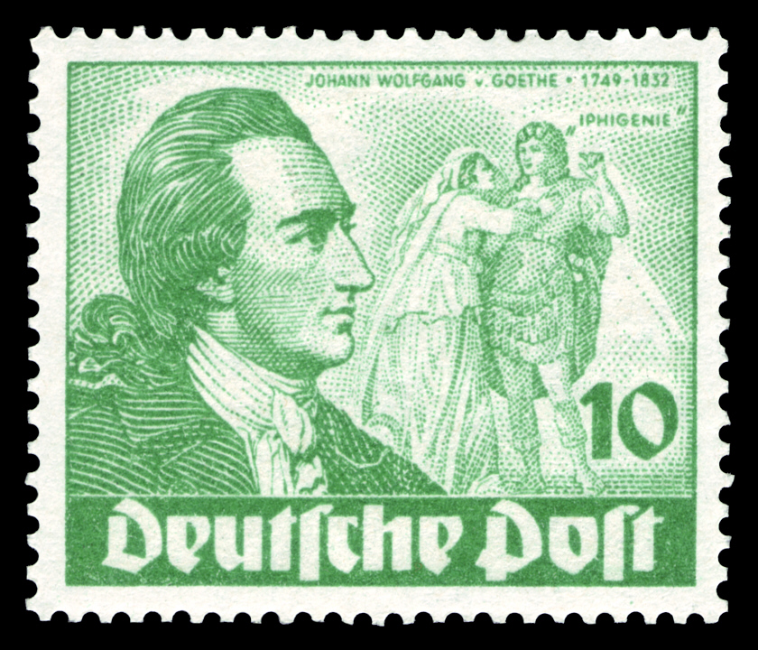 200. Geburtstag von Johann Wolfgang von Goethe (1749–1832)